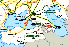 Natural gas pipelines from Russia to Europe. Notice: For some planned pipelines, this map could be out of date. !!!